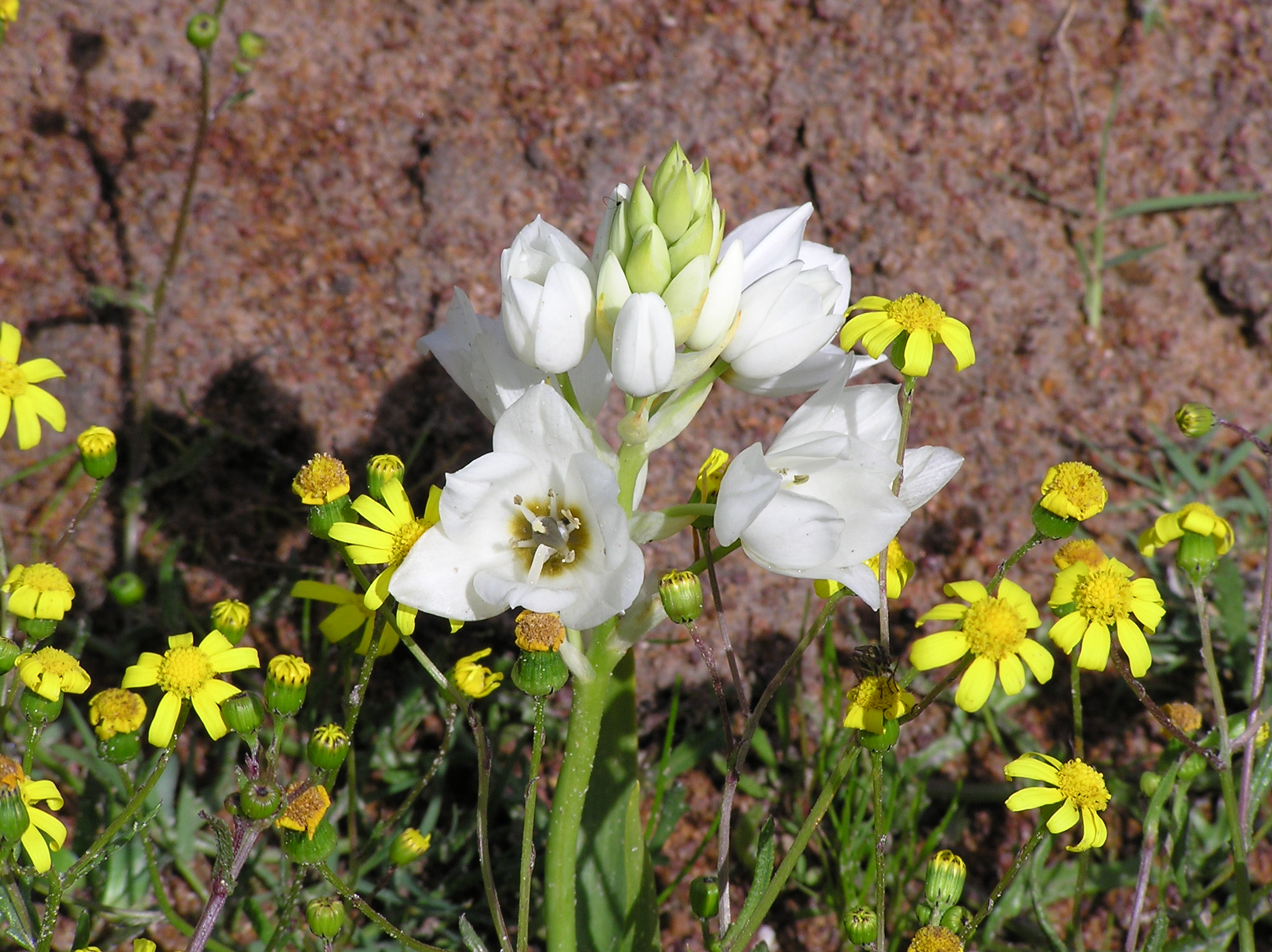 wonder-flower, star-of-Bethlehem, chincherinchee, Ornithogalum thyrsoides Jacq., Tienie Versfeld Wildflower Reserve, Swartland Local Municipality, West Coast District Municipality, Western Cape, South Africa